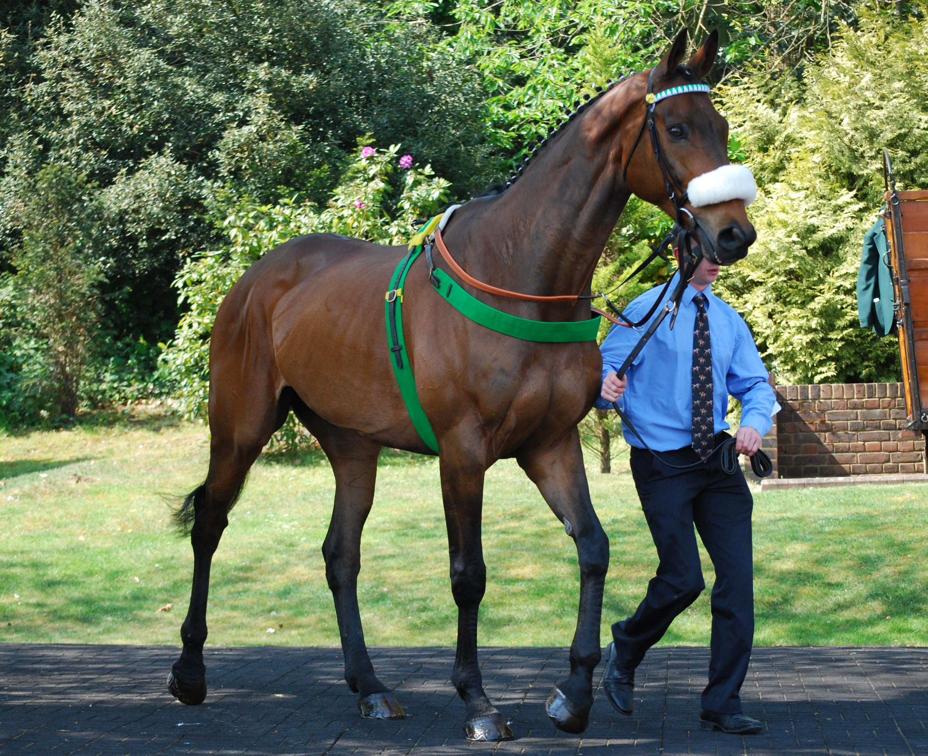 2011 Grand National winner Ballabriggs, pictured a couple of weeks after the race